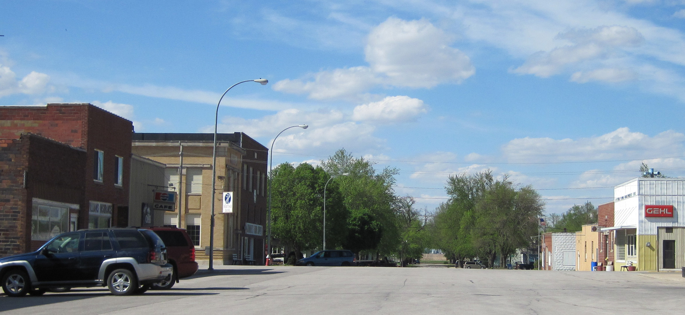 Lytton